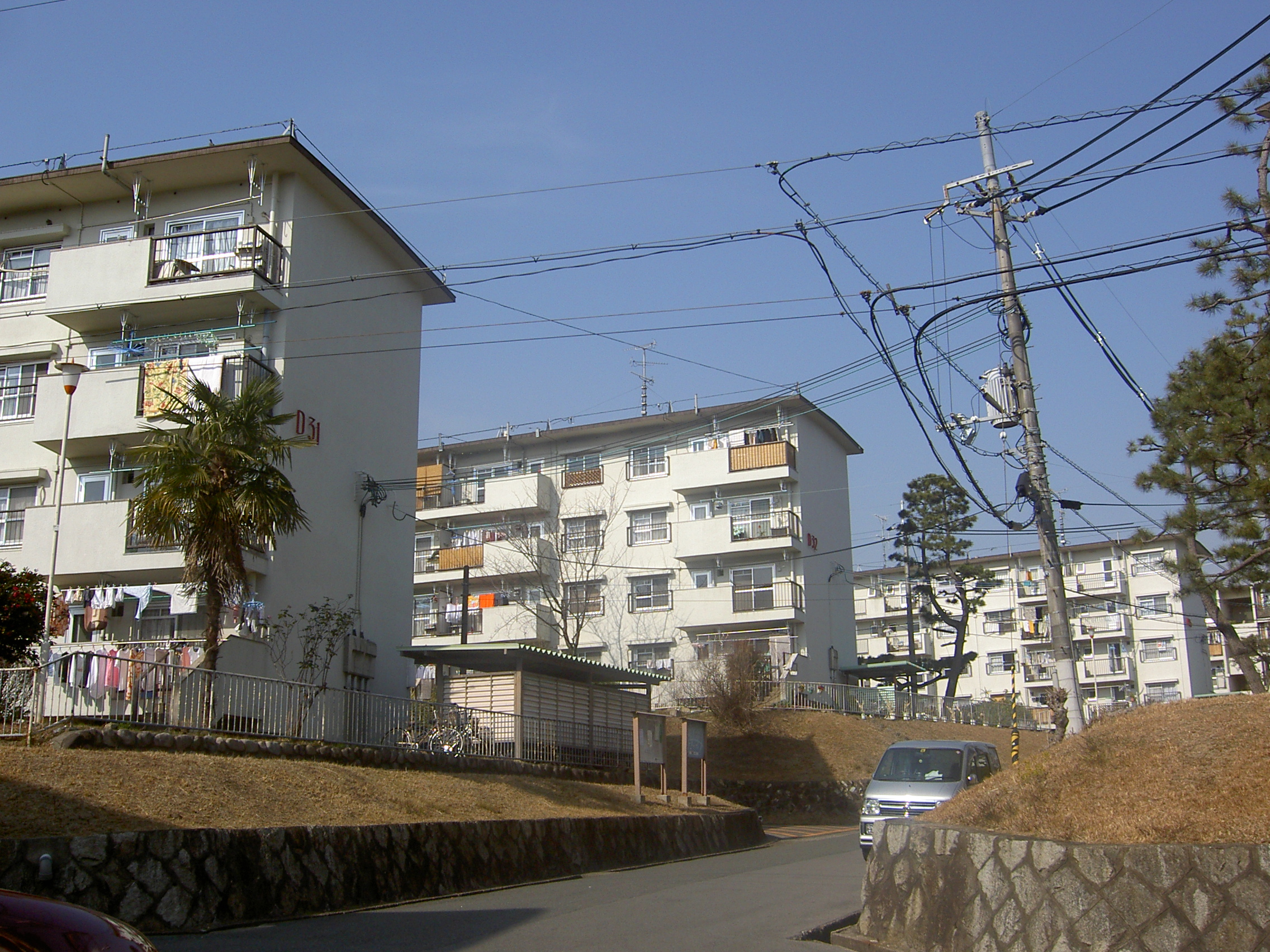 Traditional scenery in Kori housing complex where some collective housing building are located in line. Hirakata-shi, Osaka Japan.